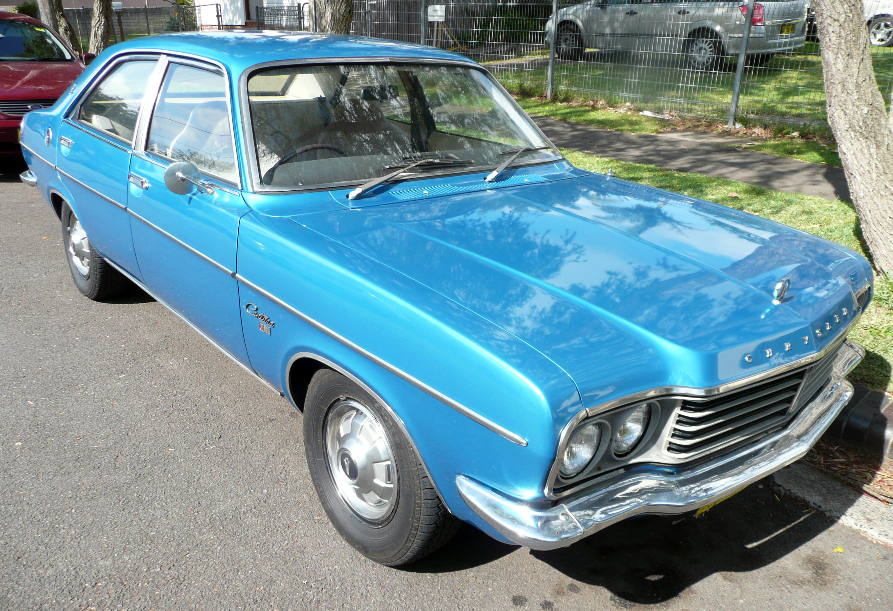 1975–1977 Chrysler Centura (KB) GL sedan. Photographed in Sutherland, New South Wales, Australia.